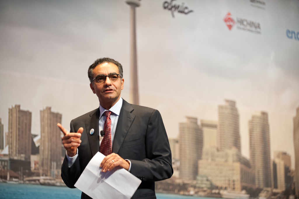 ICANN former CEO Fadi Chehadé speaks at ICANN's 45th Public Meeting in Toronto, Canada.